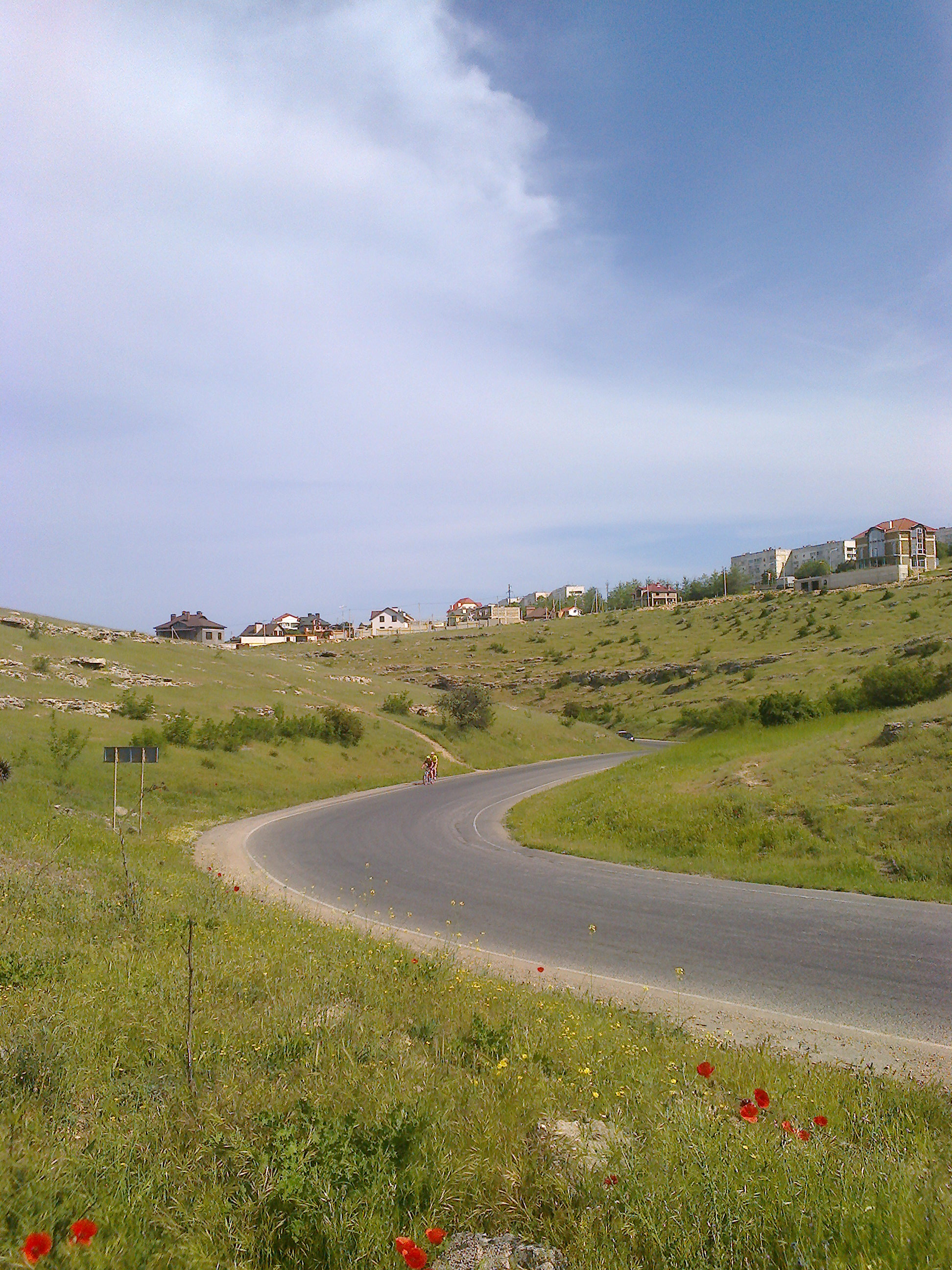 Vorontsov road in Sevastopol